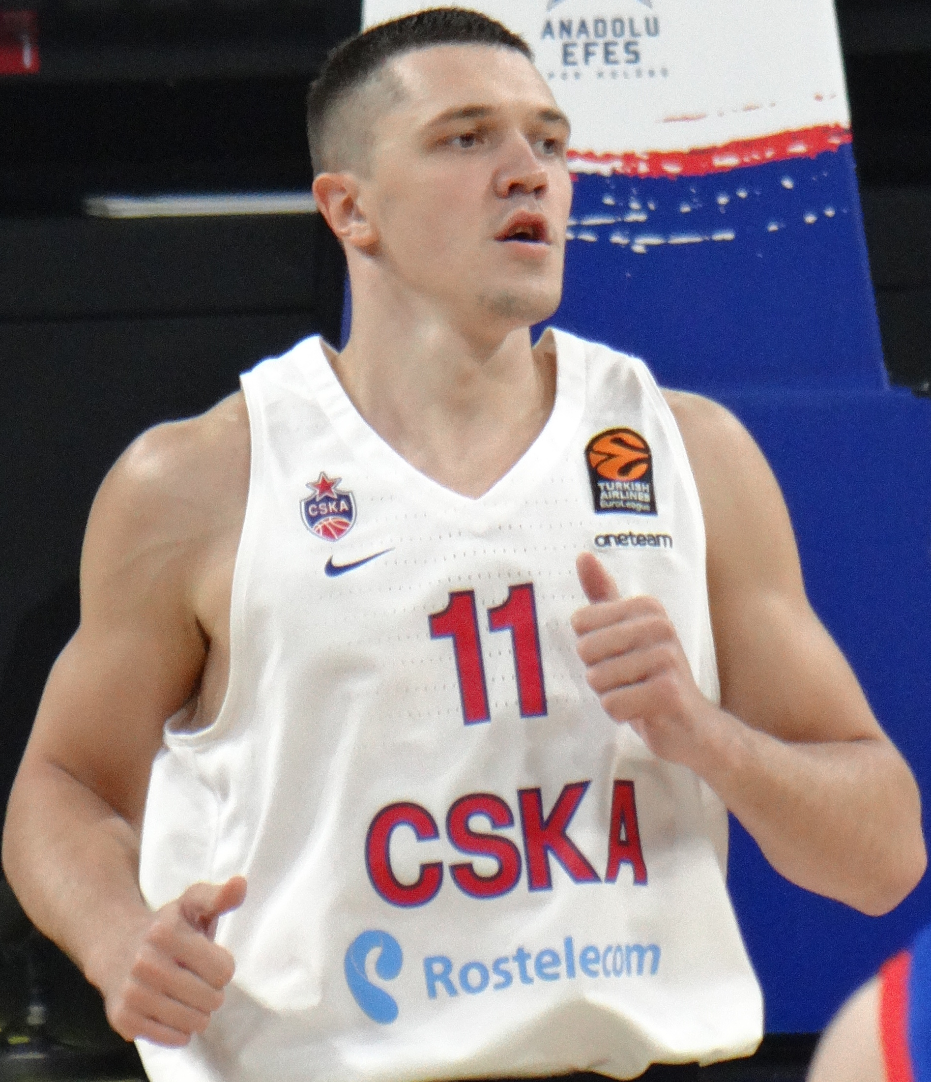 Semyon Antonov 11 PBC CSKA Moscow 20171027